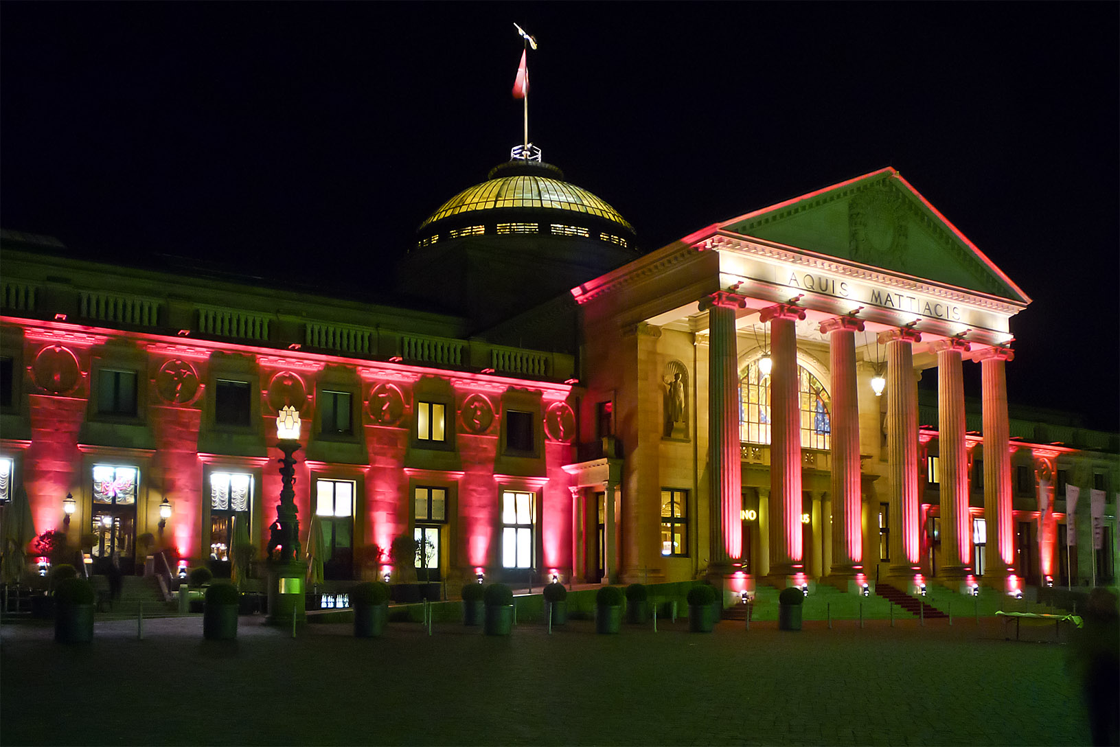 Illuminitation of Kurhaus Wiesbaden (spa house) in the night, Portal and Restaurant Käfer, Germany in the evening, Germany